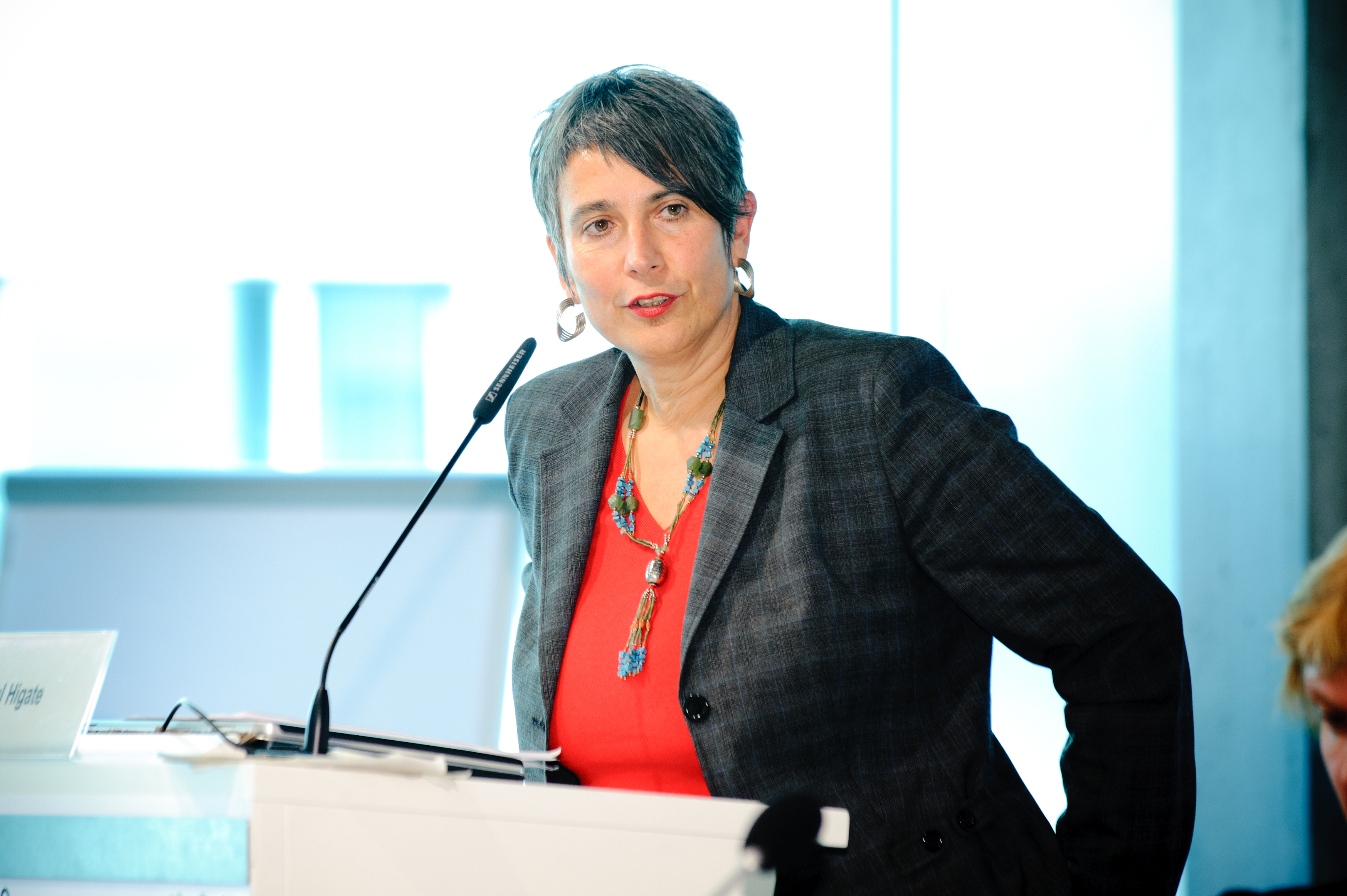 Picture: Stephan Röhl